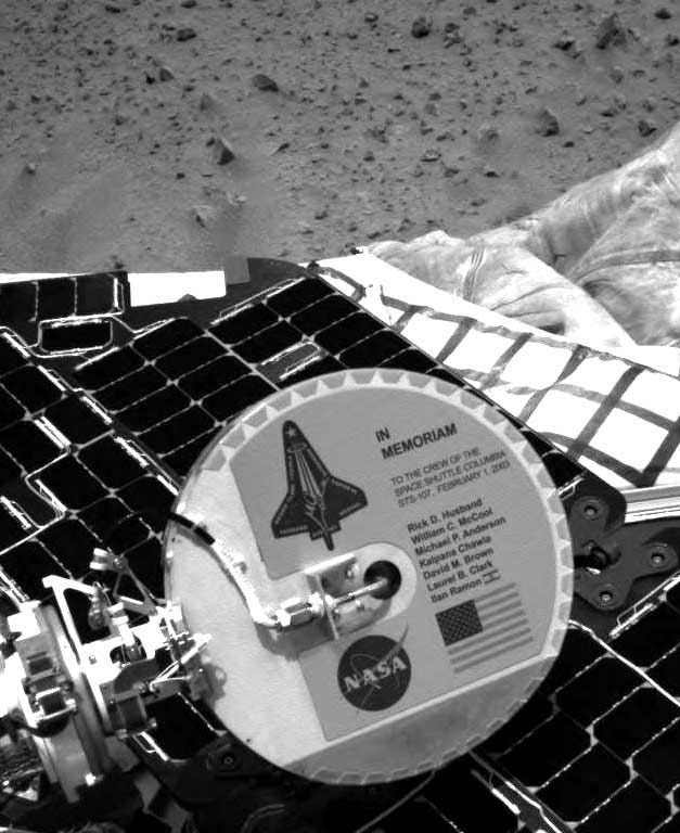 A plaque commemorating the astronauts who died in the tragic accident of the Space Shuttle Columbia is mounted on the back of the Mars Exploration Rover Spirit's high-gain antenna. The plaque was designed by Mars Exploration Rover engineers. The astronauts are also honored by the new name of the rover landing site, the Columbia Memorial Station. This image was taken on Mars by Spirit's navigation camera.